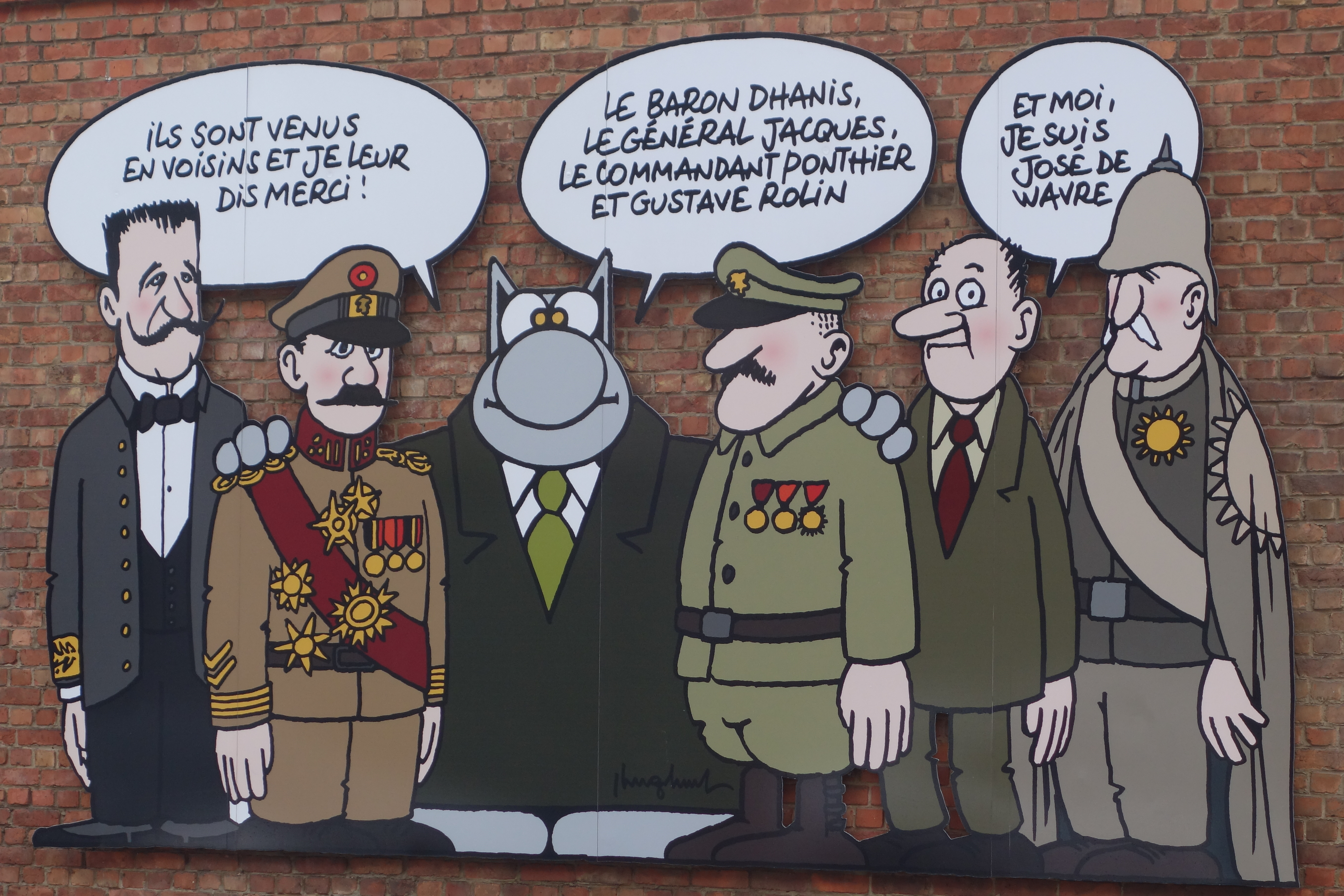 Le Chat 'La Chasse' cartoon on walls of police compound, Waversesteenweg, Etterbeek